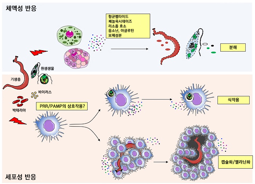 Korean translation version of Figure 3 in [1]